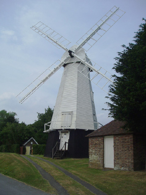 Photp of Heritage Mill, Chailey